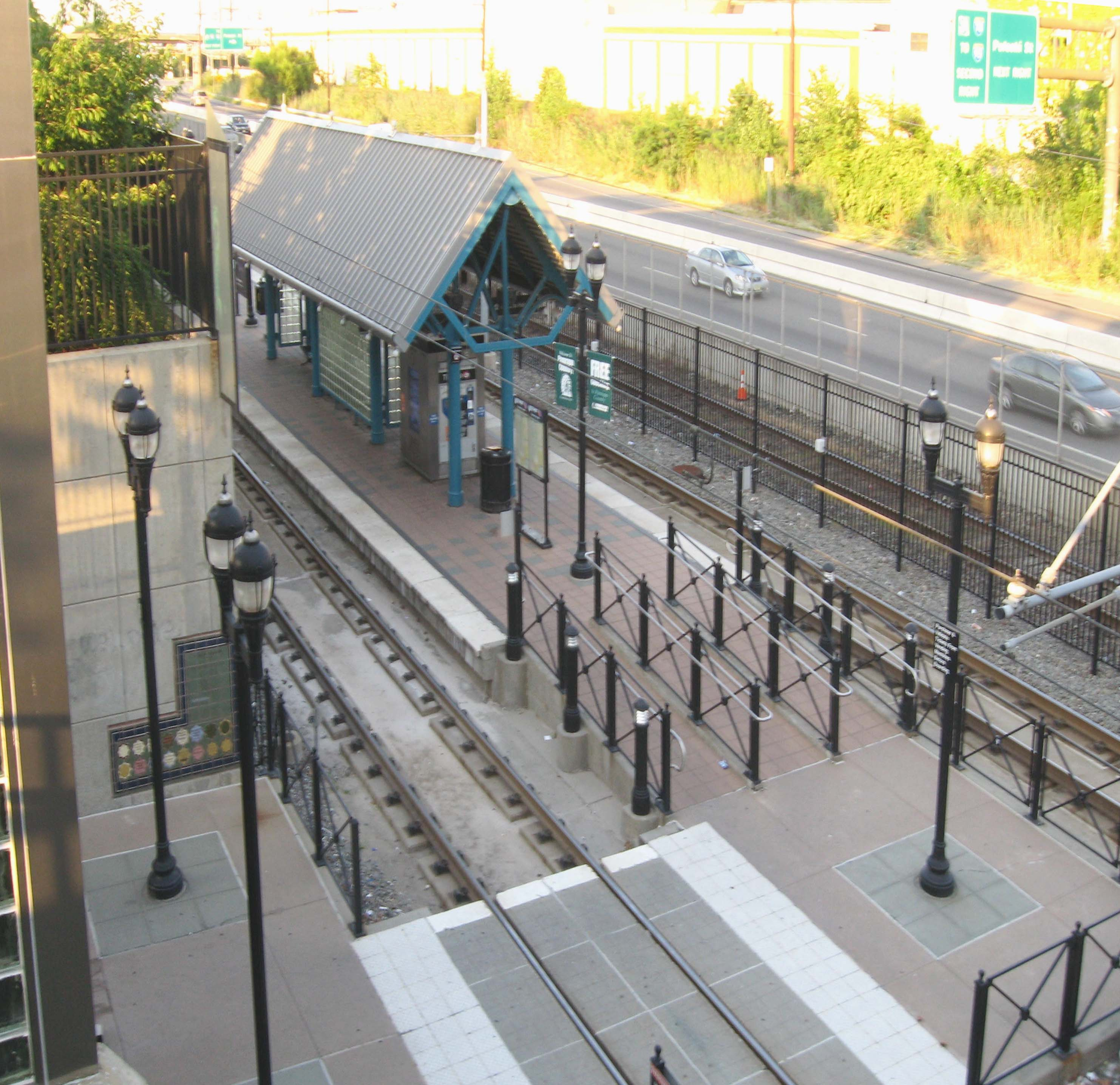 Looking down and northeast into en:45th Street (HBLR station) late on a sunny afternoon